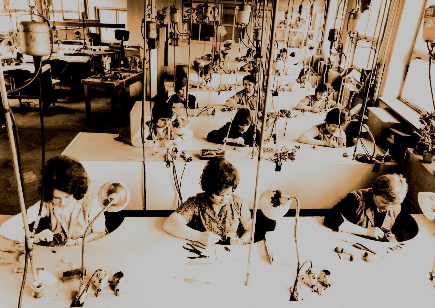 Zasazování kamenů do šperku